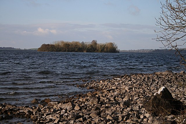 Church Island Located close to east shore of Lough Owel and the site of a medieval church.